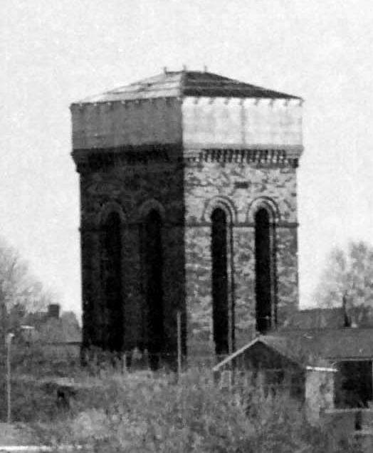 Ormskirk's other water tower. Locally, Ormskirk is well known for the concrete, mushroom shaped water tower on Scarth Hill. Less well known is this one just off Greetby Hill. The photograph was taken in 1987 when the tower was not quite as derelict as it is now.